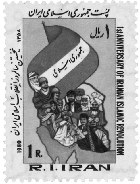 Stamp of the first anniversary of the 1979 Islamic Revolution